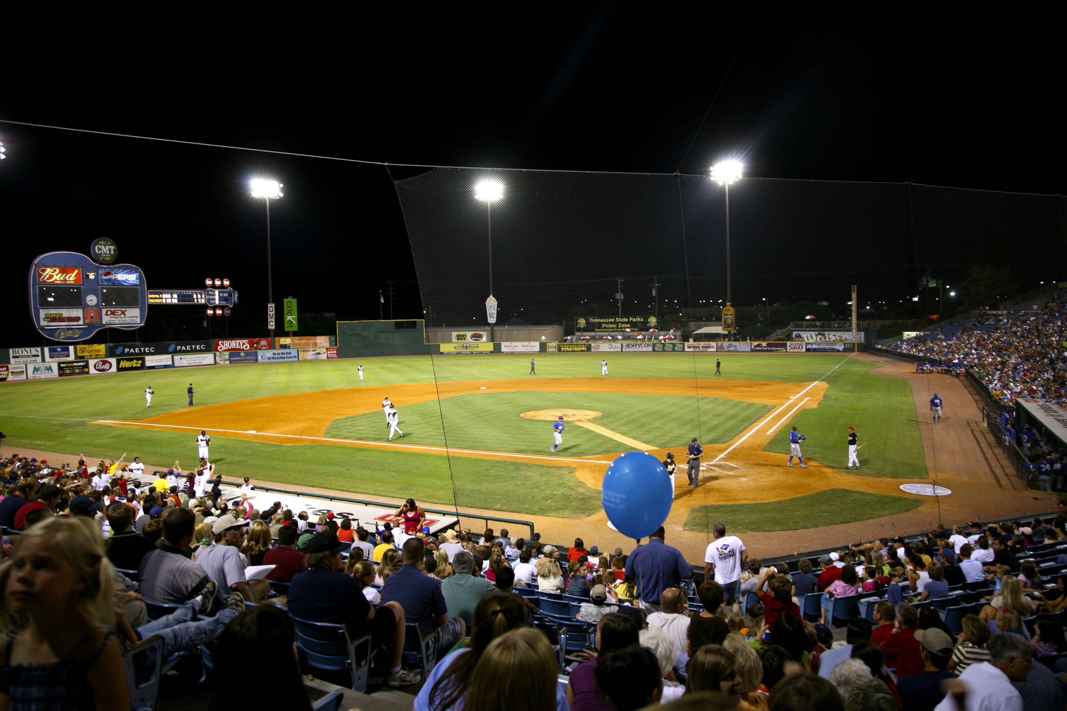 Nashville Sounds game, Nashville, Tennessee, August 9, 2008